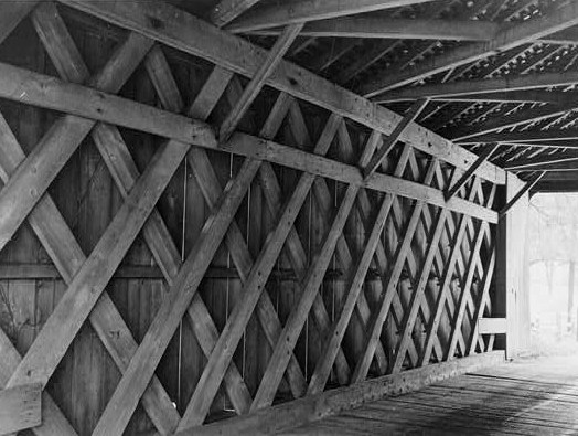 Ashland Covered Bridge, Lattice-Work, Red Clay Creek-Barley Mill Road, Ashland (New Castle County, Delaware) Image courtesy of the Historic American Building Survey—HABS archives. (1958; cropped). Object location39° 47′ 53″ N, 75° 39′ 29″ W